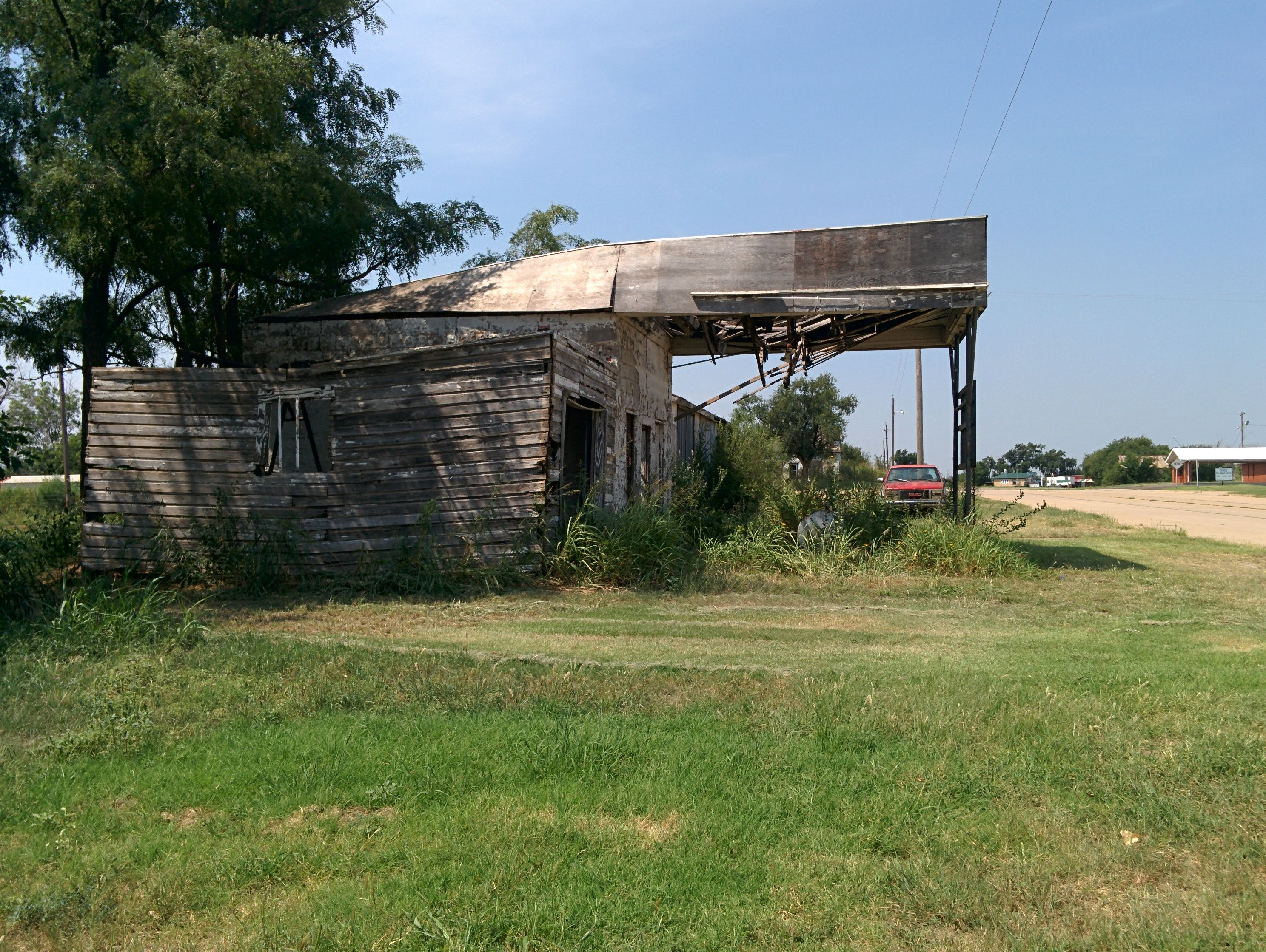 Magnolia Service Station